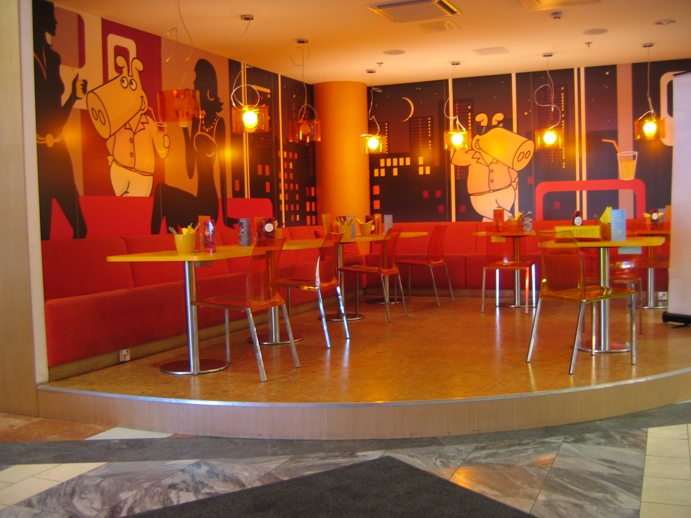 "BannCook" blini restaurant in "Viru Keskus", Tallinn, Estonia.